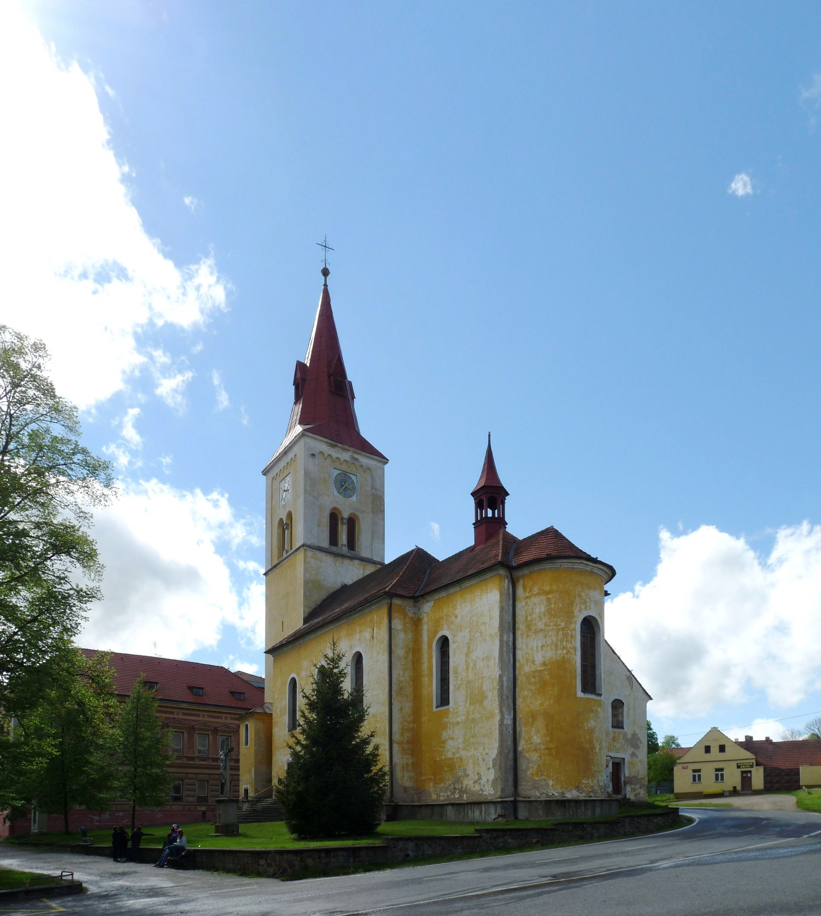 Holy Trinity Church in the municipality of Hořepník, Pelhřimov District, Vysočina Region, Czech Republic.